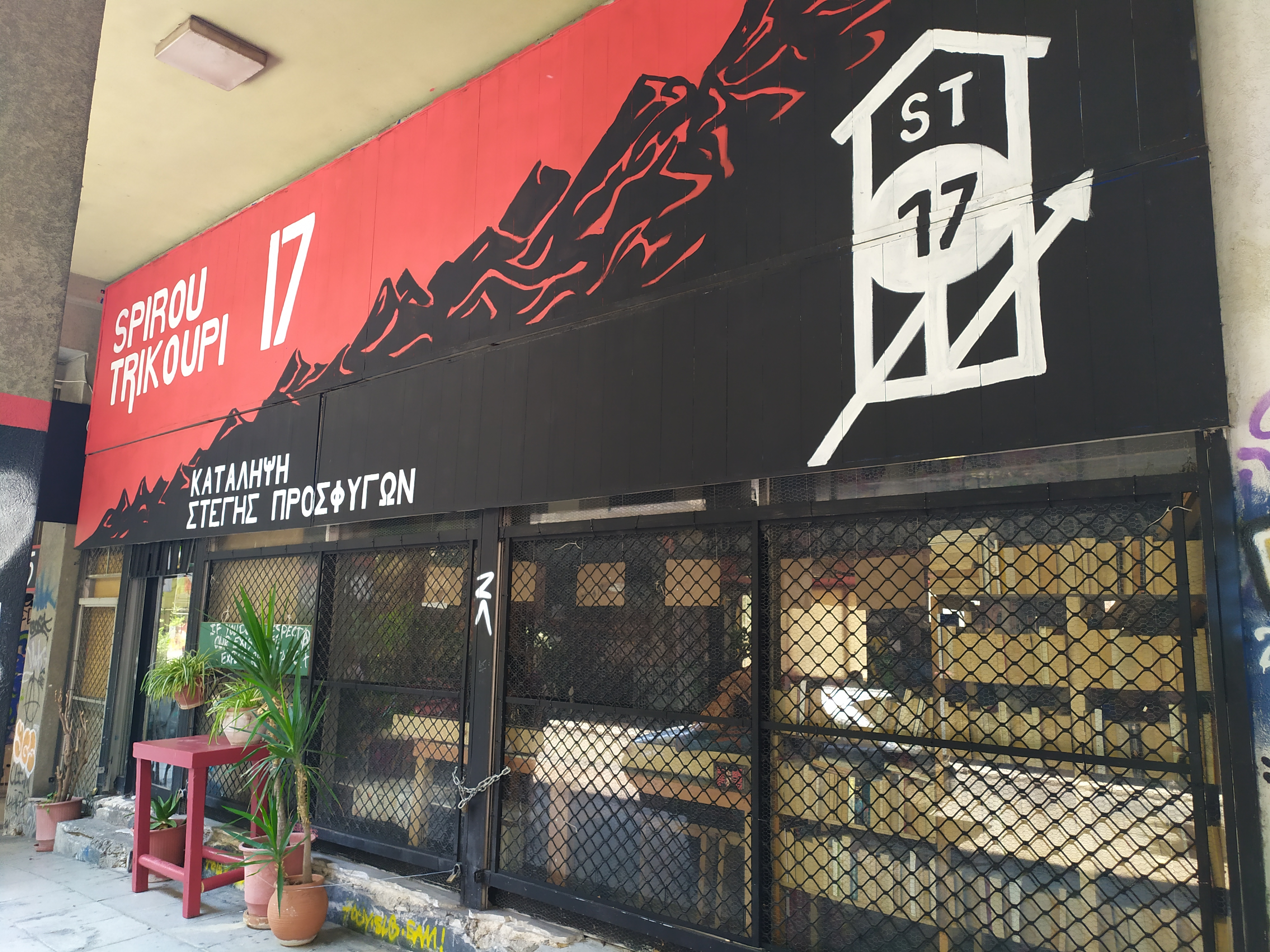 Squat in Exarcheia (2019) - Spirou Trikoupi 17